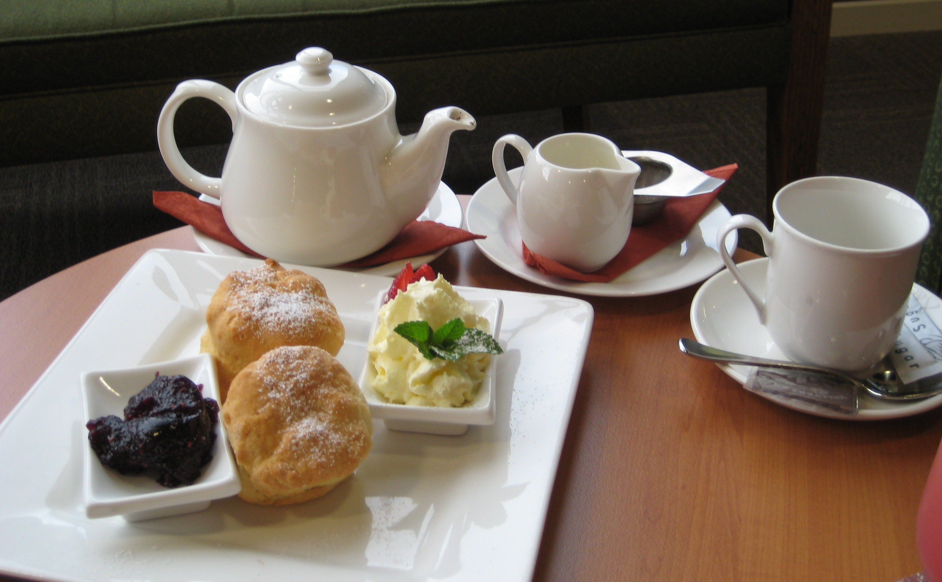 A photograph that I took of my Devonshire tea. A cream tea, comprising tea taken with scones, clotted cream and jam.